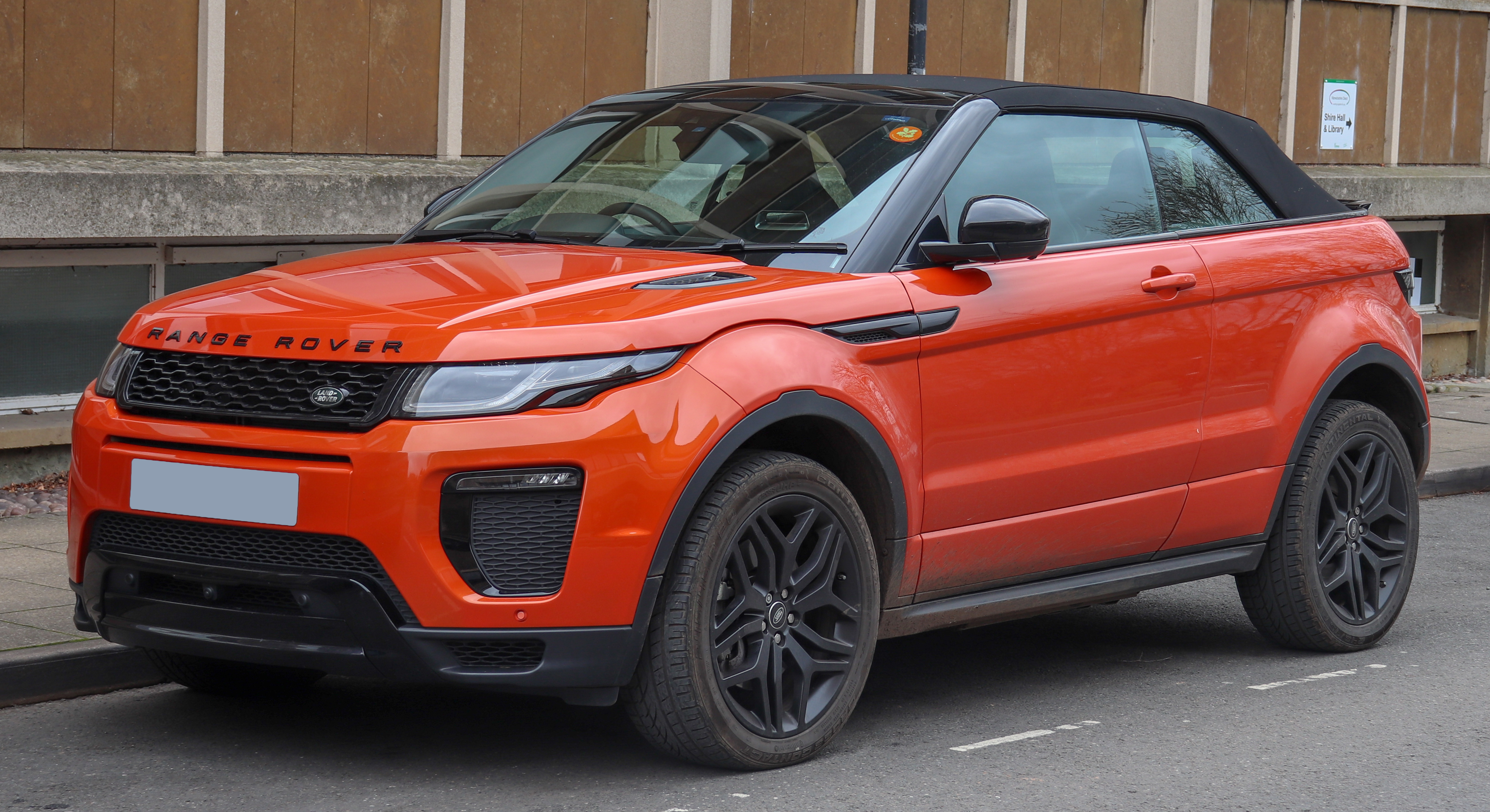 2018 Land Rover Range Rover Evoque Convertible HSE Dynamic SD4 2.0 Front Taken in Warwick